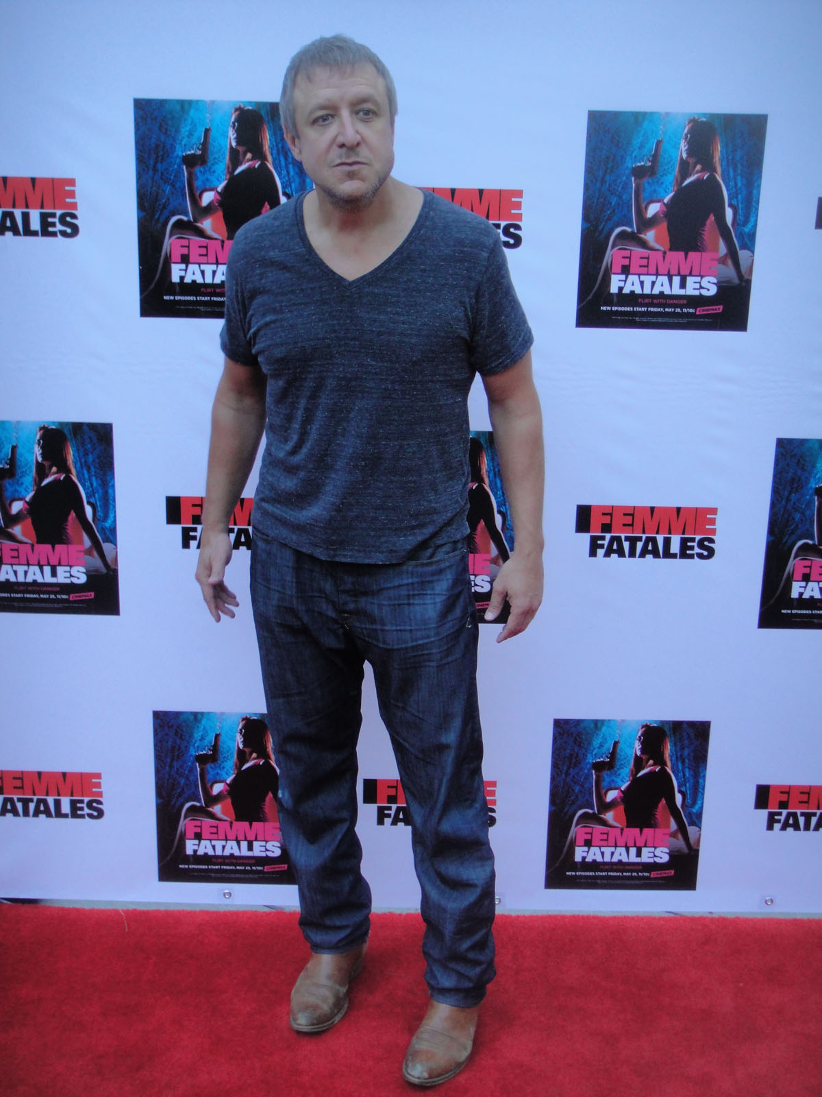 Femme Fatales Red Carpet - Paul Rae